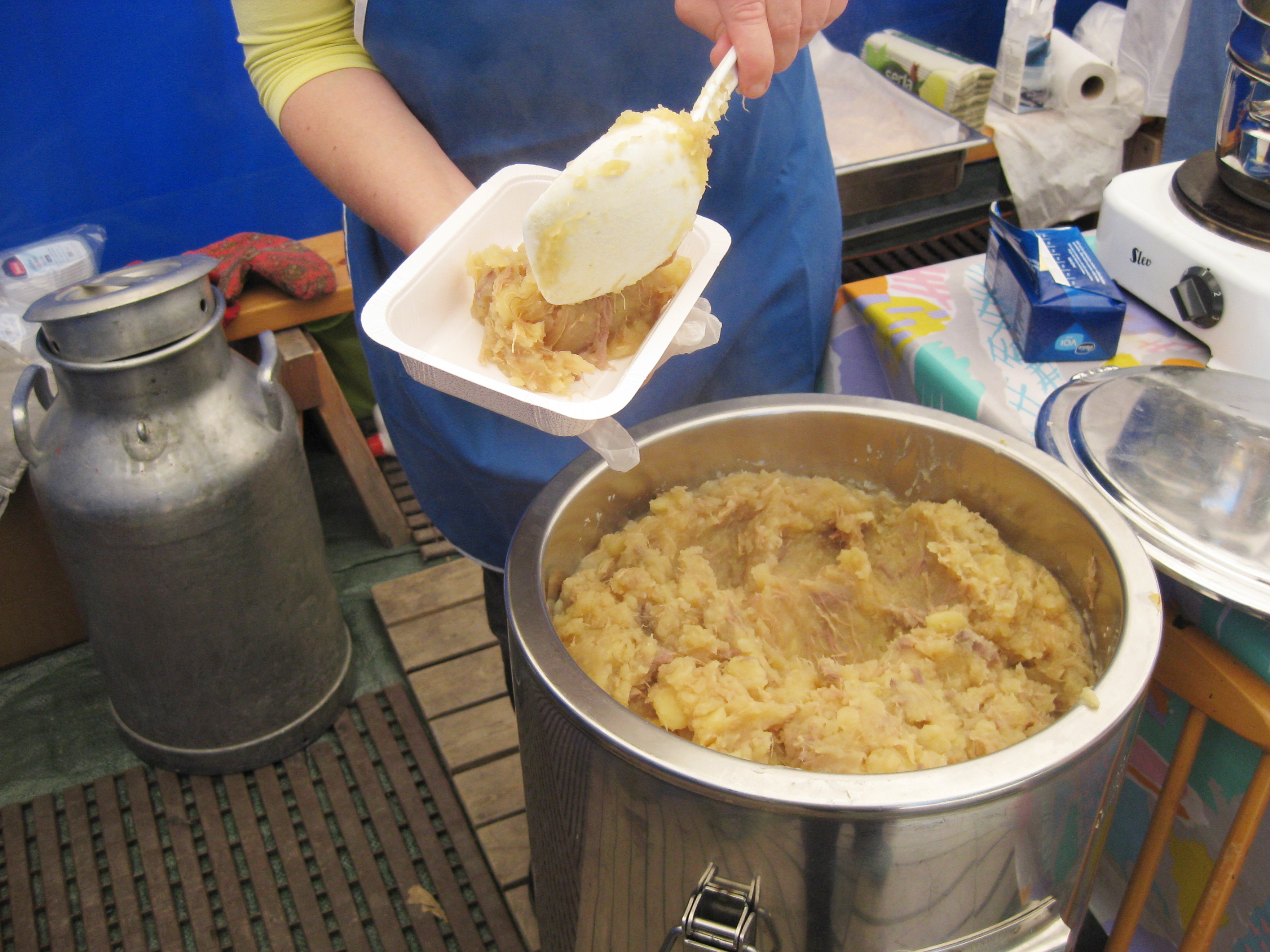 Marttas serving labskaus during Lace Week 2013 in Rauma, Finland